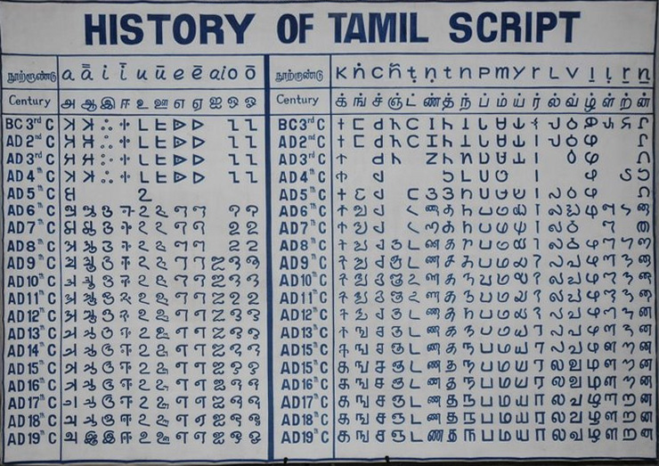 History of Tamil Letters